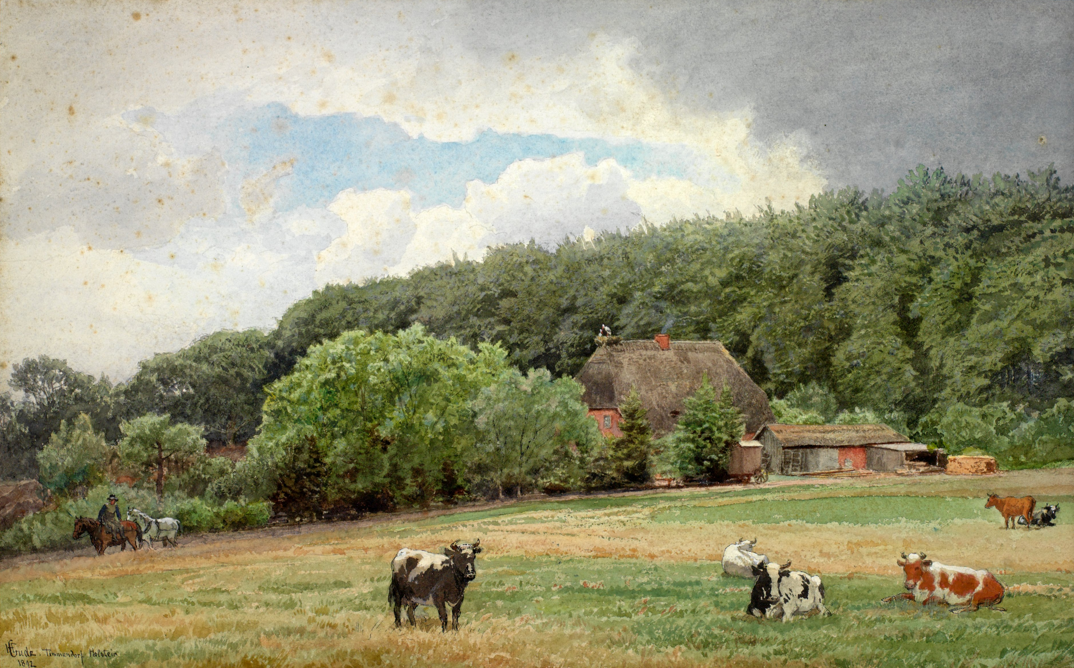 Watercolor painting "Bondegård med beitende kuer" by Hans Gude, original size 38x50cm, Timmendorf, Holstein, Germany.